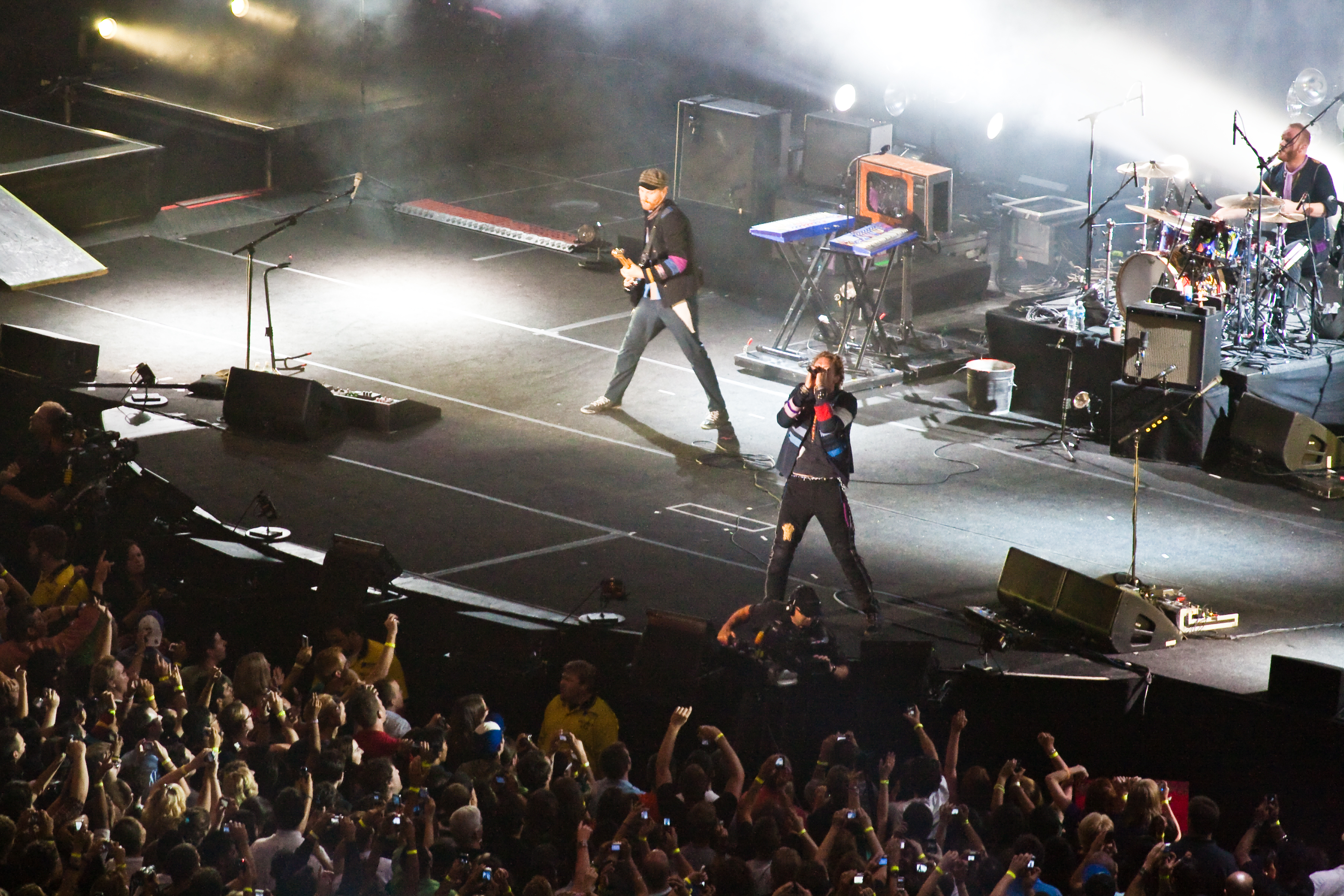 Rogers Centre, Toronto, July 30, 2009